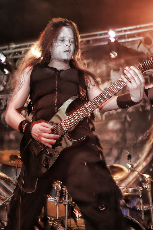 Dariusz Yanuary Styczeń of Crionics